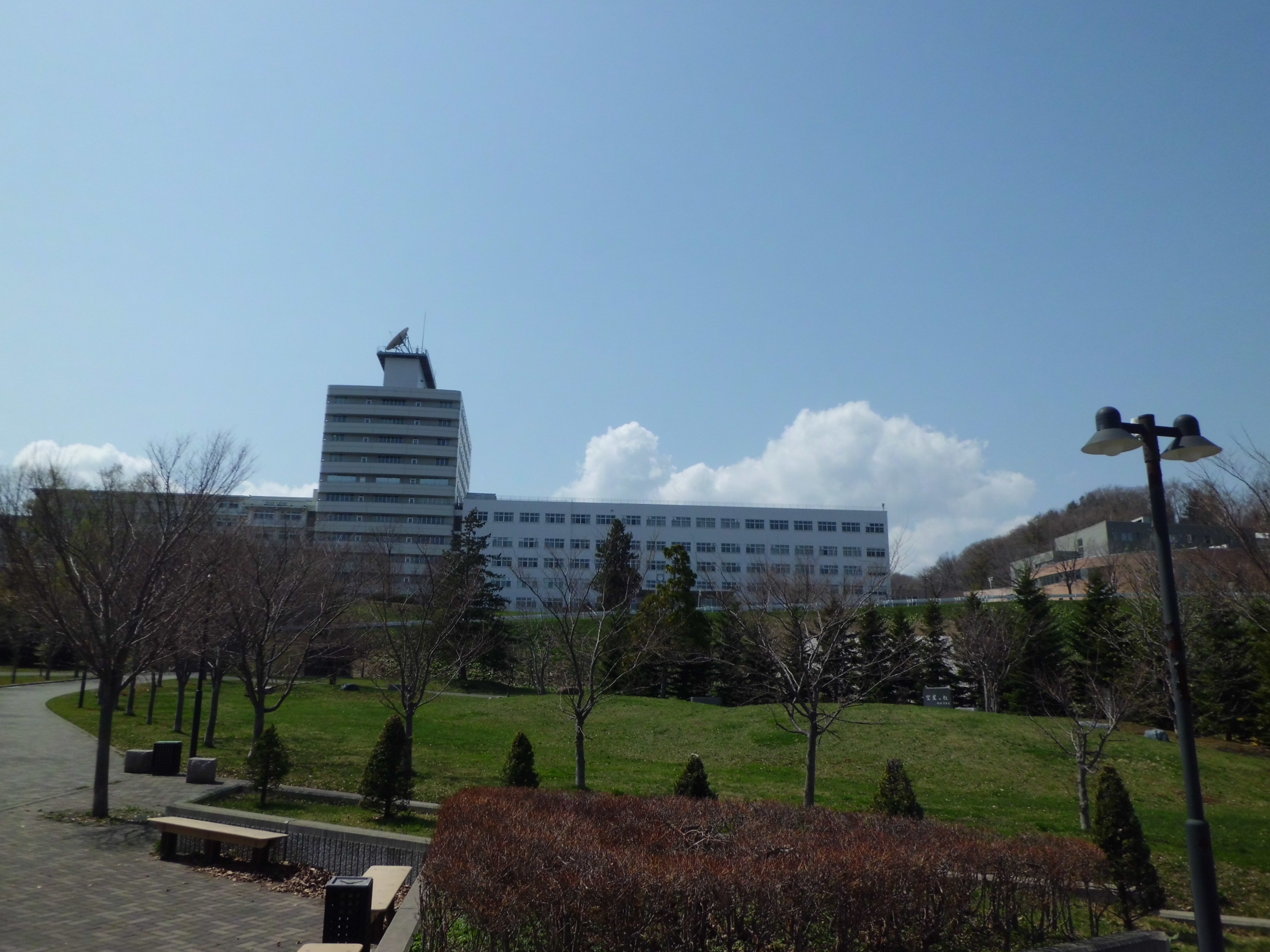 Tokai University Sapporo campus (former Hokkaido Tokai Univercity Sapporo campus).